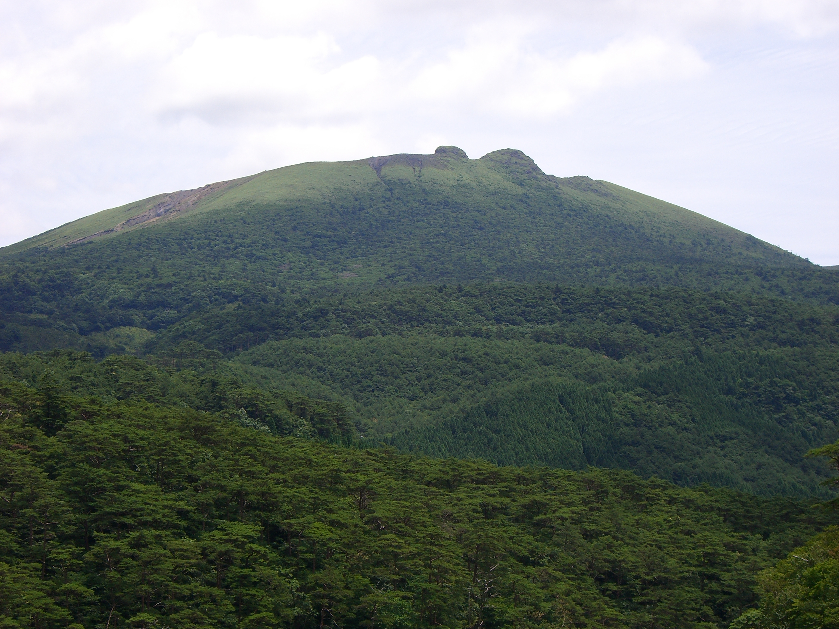 Mount Shinmoe rises between Kagoshima and Miyazaki, Japan.